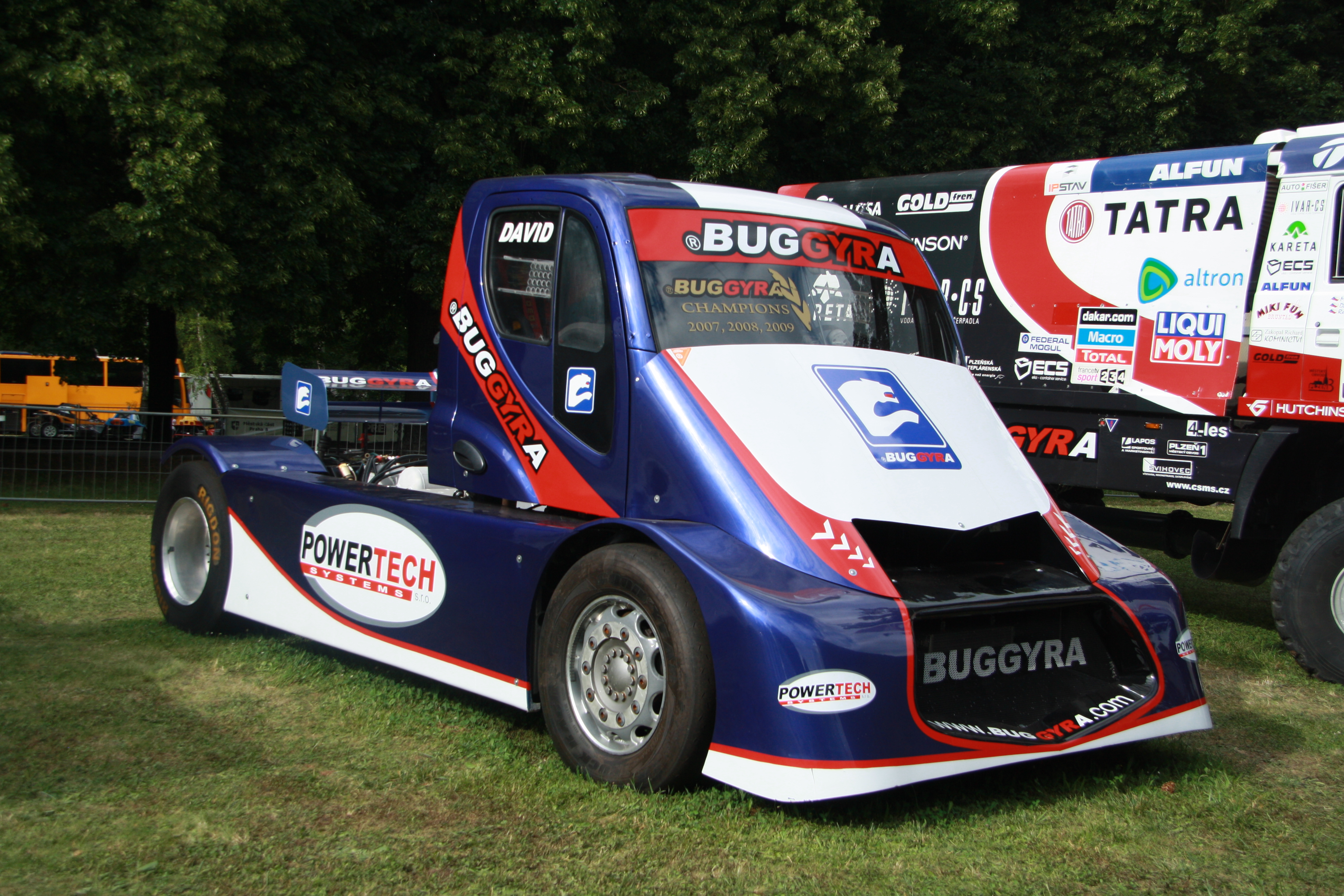 Buggyra car at Legendy 2014.